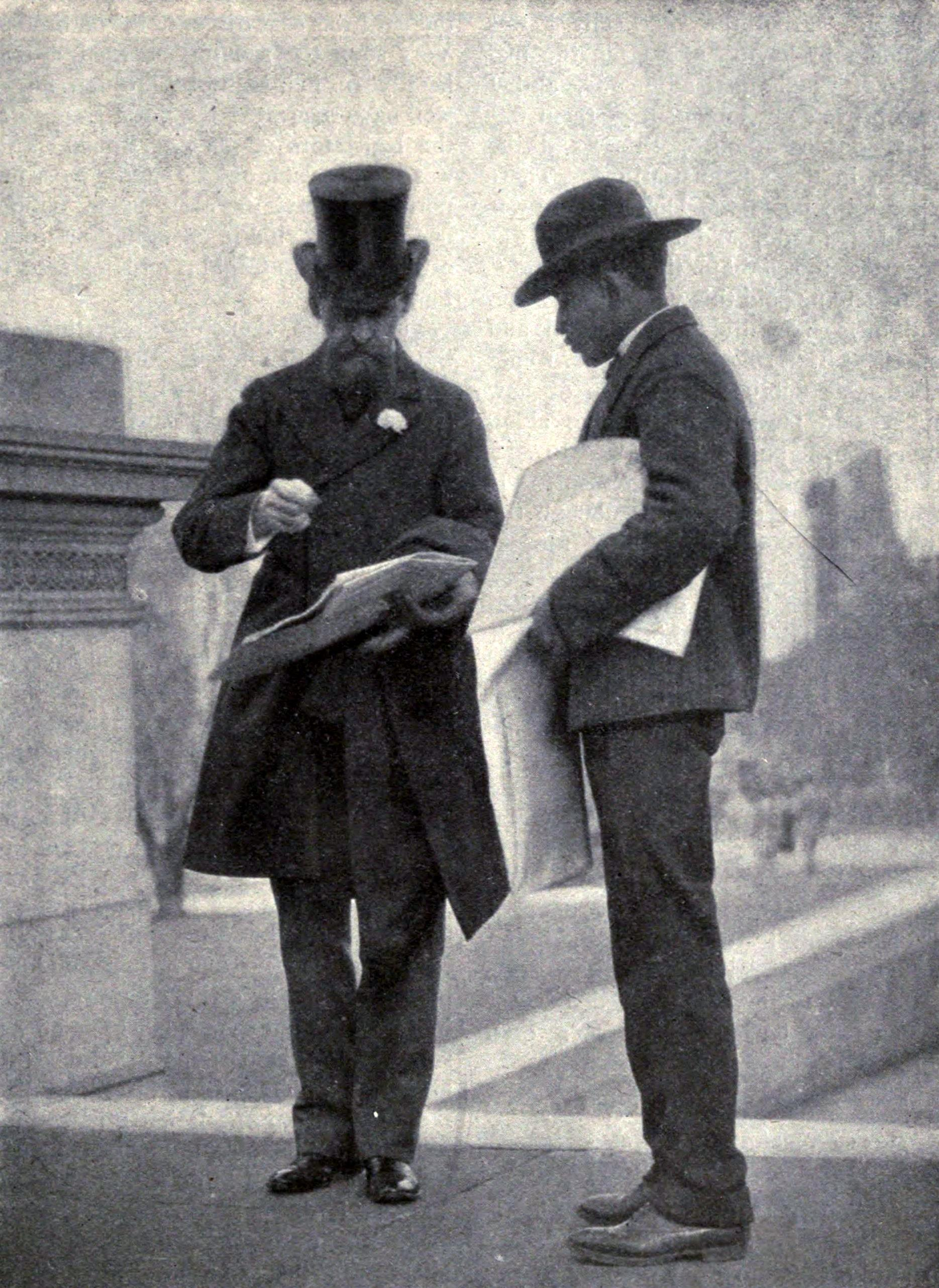 William A Clark buying a newspaper, circa 1906